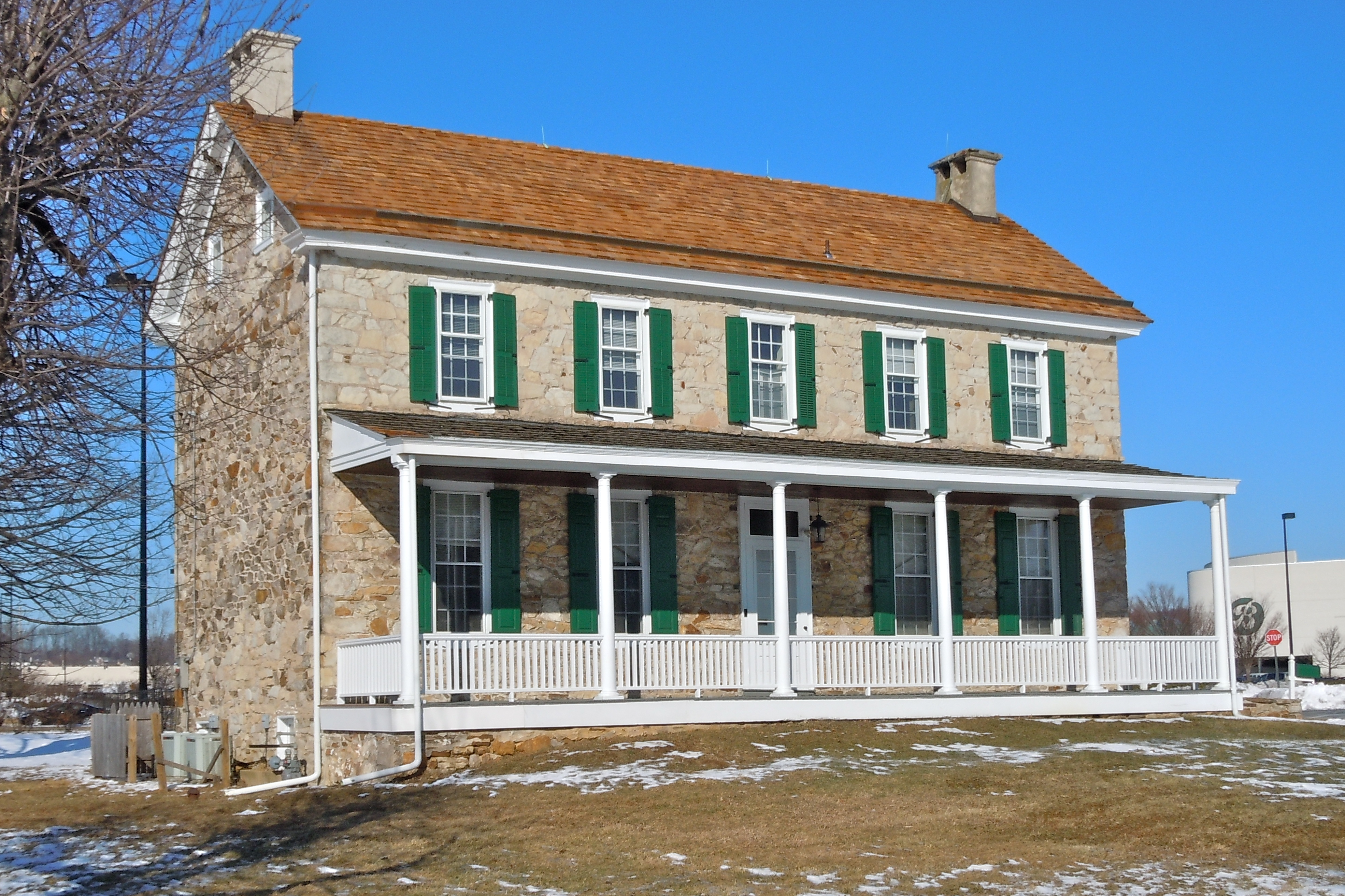 Sleepy Hollow Hall on the NRHP since August 2, 1984, at 109 East Lincoln Highway (US 30) in West Whiteland Township, Chester County, near Exton, Pennsylvania. Very close to the 2 Zook Houses which are also on the NRHP.